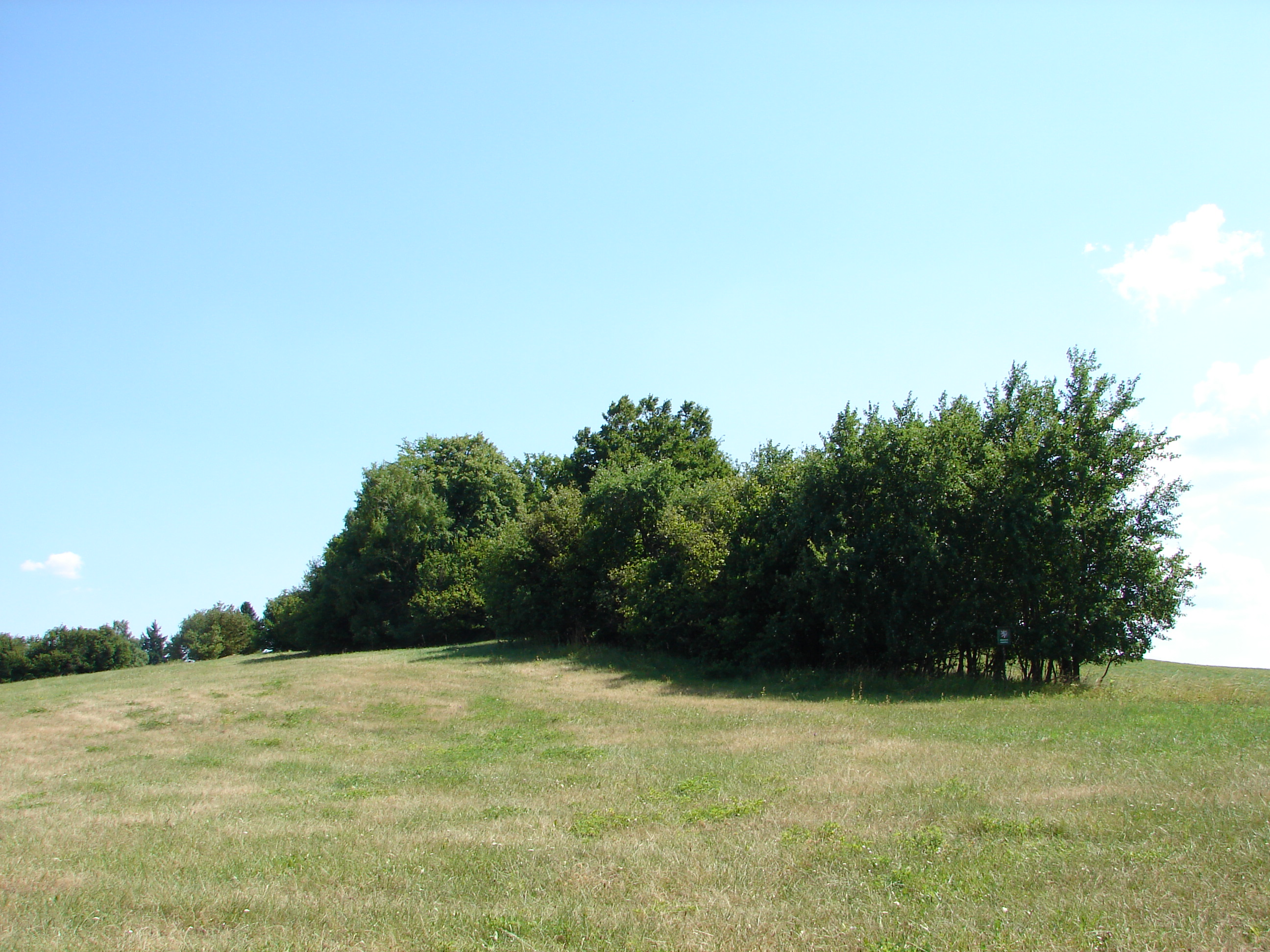 Natural monument Kocoury, in Žďár nad Sázavou District, Czech republic.